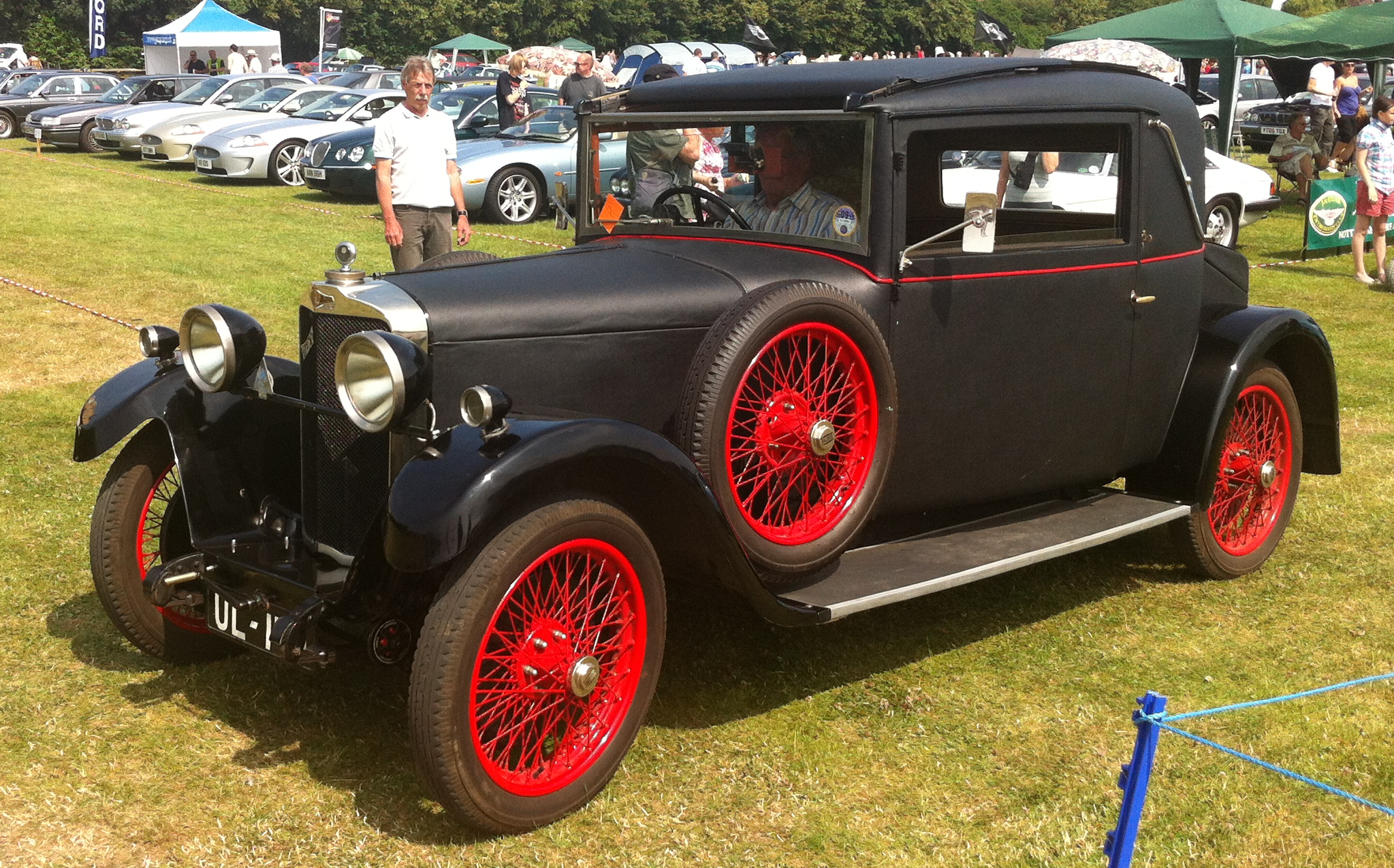 1929 Talbot 14/45 close-coupled faux cabriolet (DVLA) UL 1119, first registered 5 January 1929, 1694cc Doncaster Classic Car Show 2013 see Bonham's auction 16246, RAF Hendon, 21 April 2008